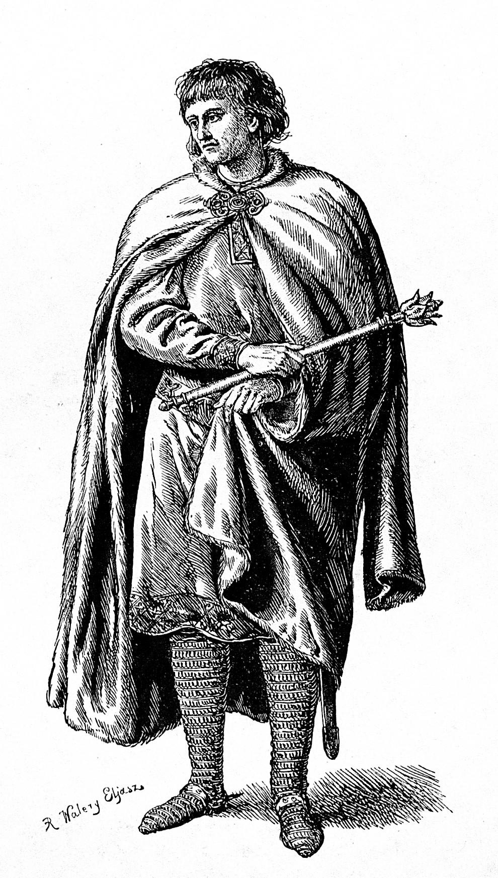 Vladislaus Spindleshanks, Duke of Poland